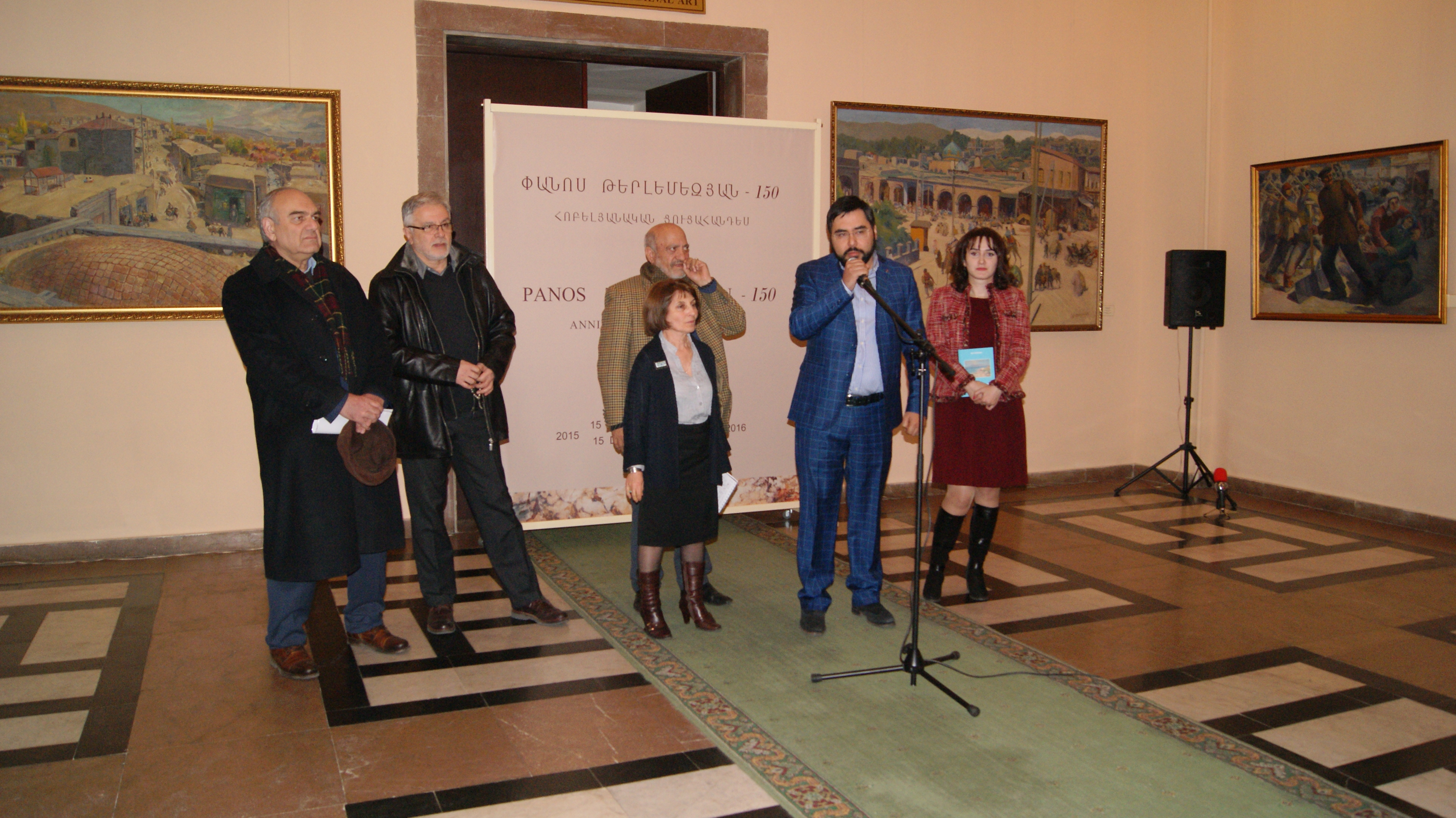 Panos Terlemezyan 150 anniversary at National Gallery of Armenia